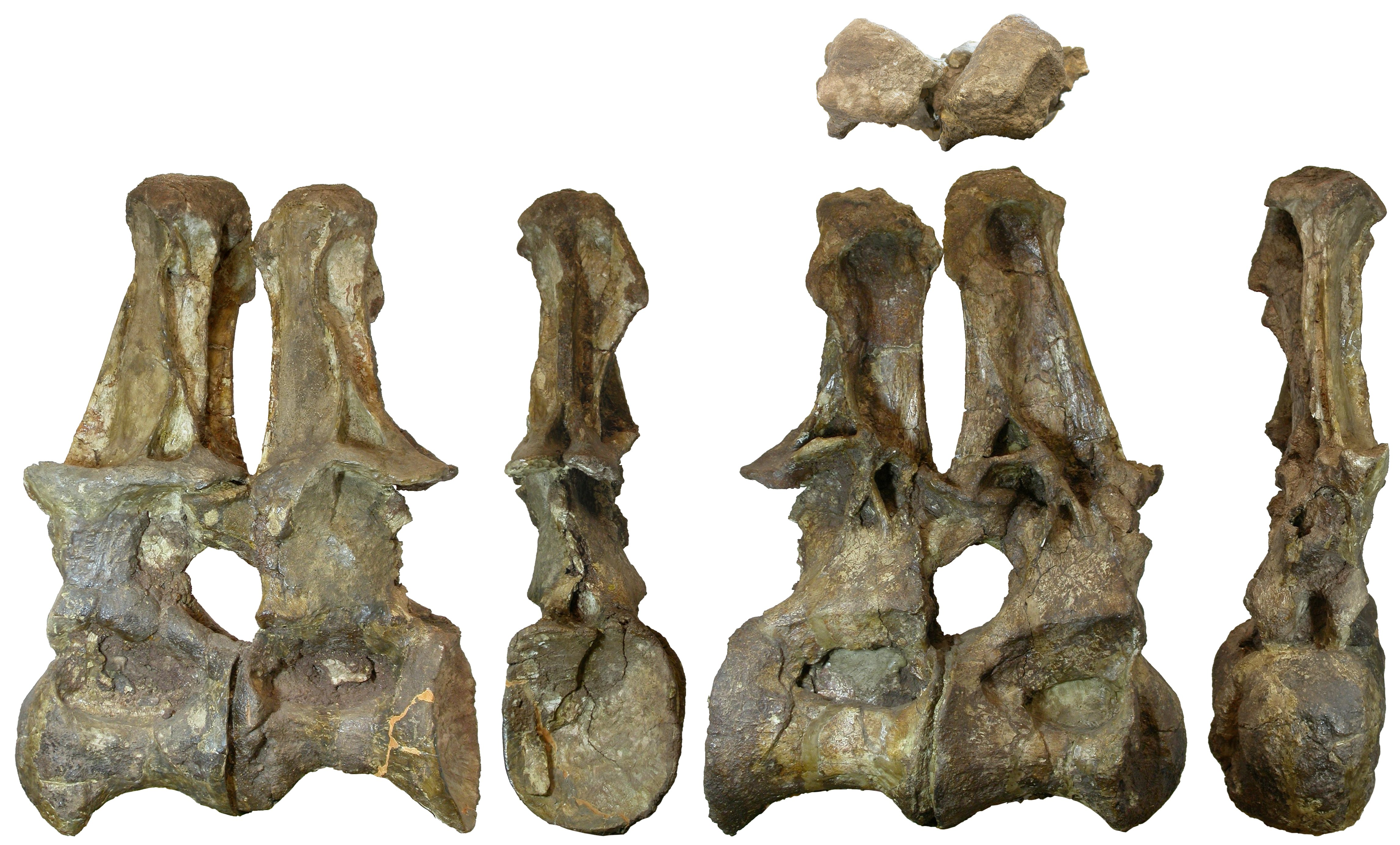 Dorsals A and B (probably D8 and D9) of NHM R5937, “The Archbishop”, a still-undescribed brachiosaurid sauropod from the Upper Jurassic Tendaguru Formation of Tanzania, which I will get done this year, and which is destined for PeerJ. Top row: dorsal view with anterior to the right. Bottom row, from left to right: left lateral, posterior, right lateral, anterior.